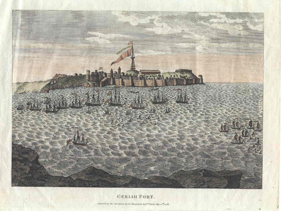 A British-Portuguese-Indian naval force attacks the fort of Geriah, 1756 Source: ebay, Jan. 2004 "Hand-colored engraving: Geriah Fort, India. Published circa 1760. The scene depicted is that of the British-commanded Indo-Portuguese naval force which attacked the base of the Maratha warrior Tulajee Angre called as Pirate by British on the 13th of February 1756. The British Admirals Pocock and Watson with their Indo-Portuguese manned naval force (the first time such a mixed force had been used in a military situation) were attempting to suppress Tulagee Angria who had been attacking Portuguese and English shipping."